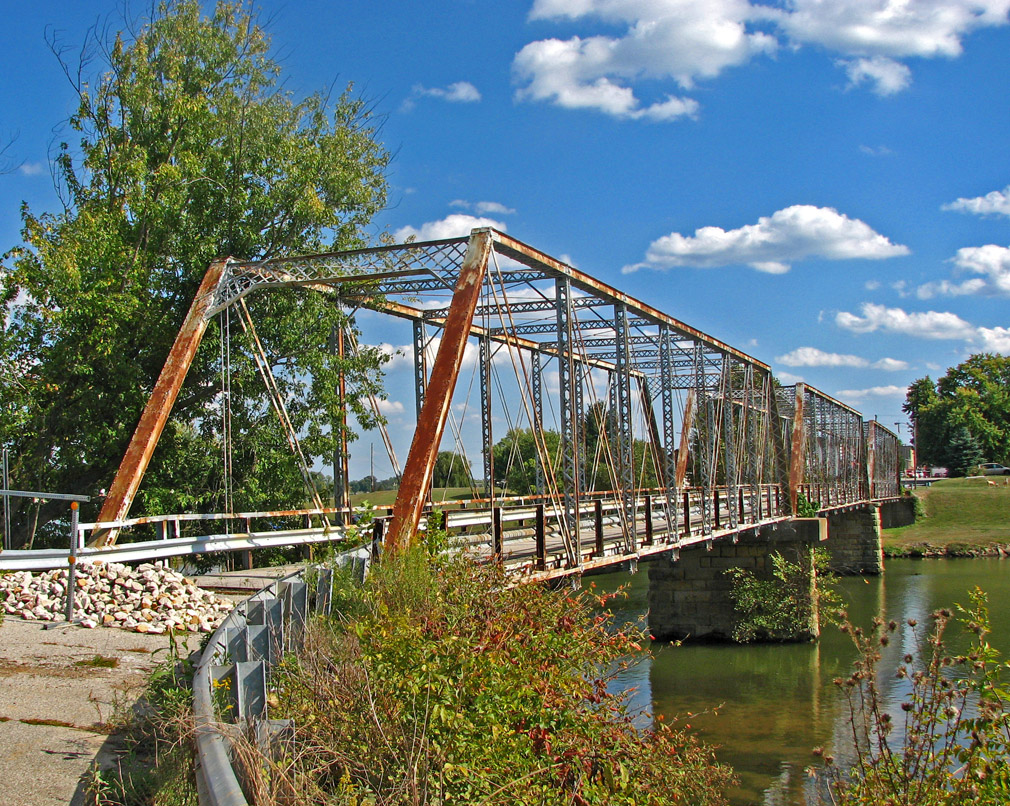 One end of the KY 2541 Bridge, which carried Main Street (Kentucky Route 2541, formerly U.S. Route 23) over the Little Sandy River in Greenup, Kentucky, United States. Built in 1884, it is listed on the National Register of Historic Places.